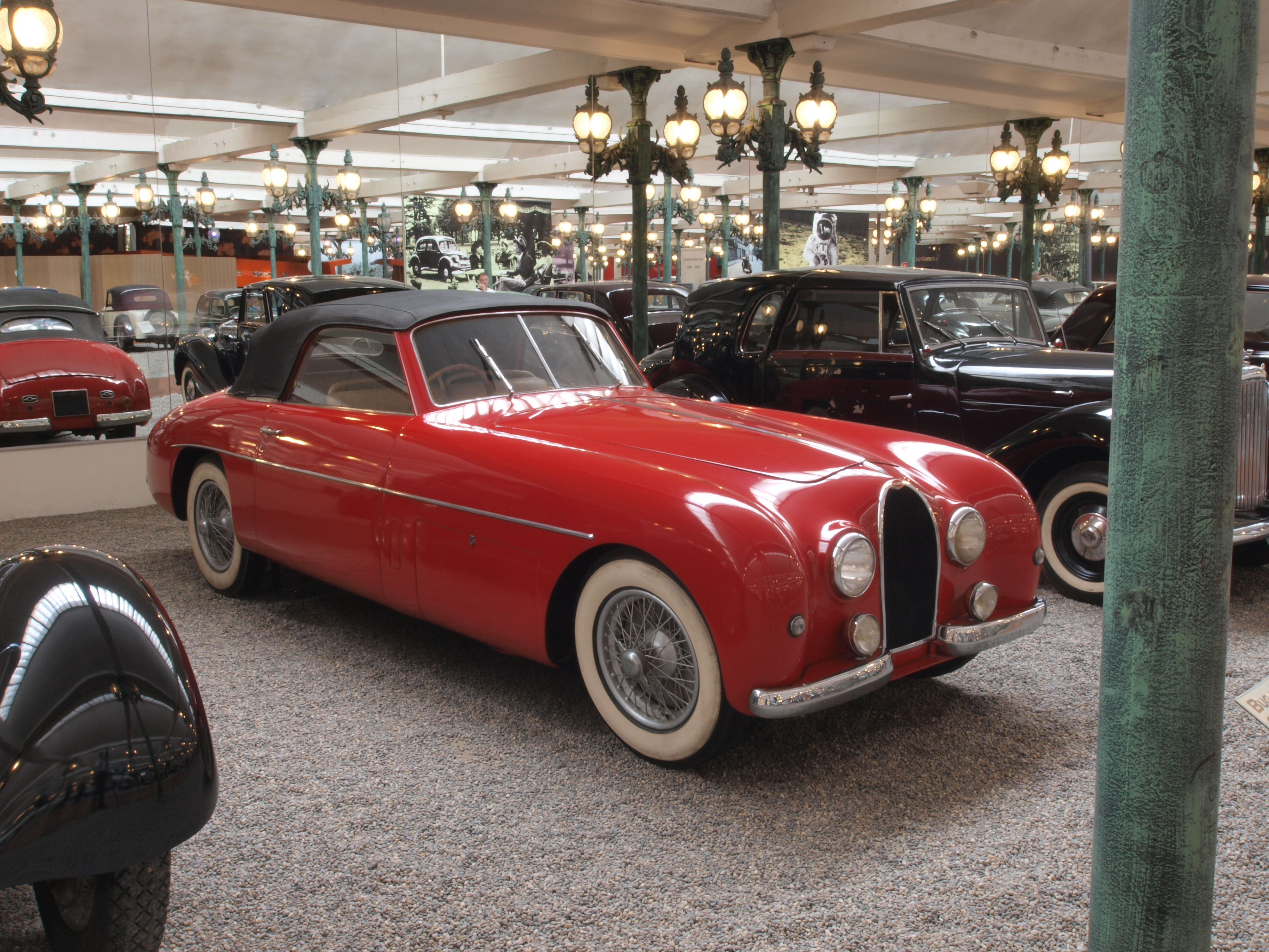 Photographed at the Cité de l’Automobile, France. OLYMPUS DIGITAL CAMERA